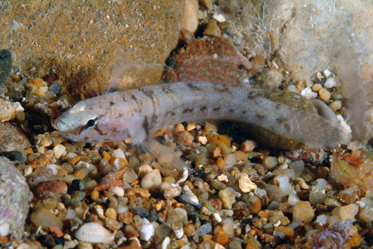 Chromogobius zebratus photographed on Tuscany coast (Italy)